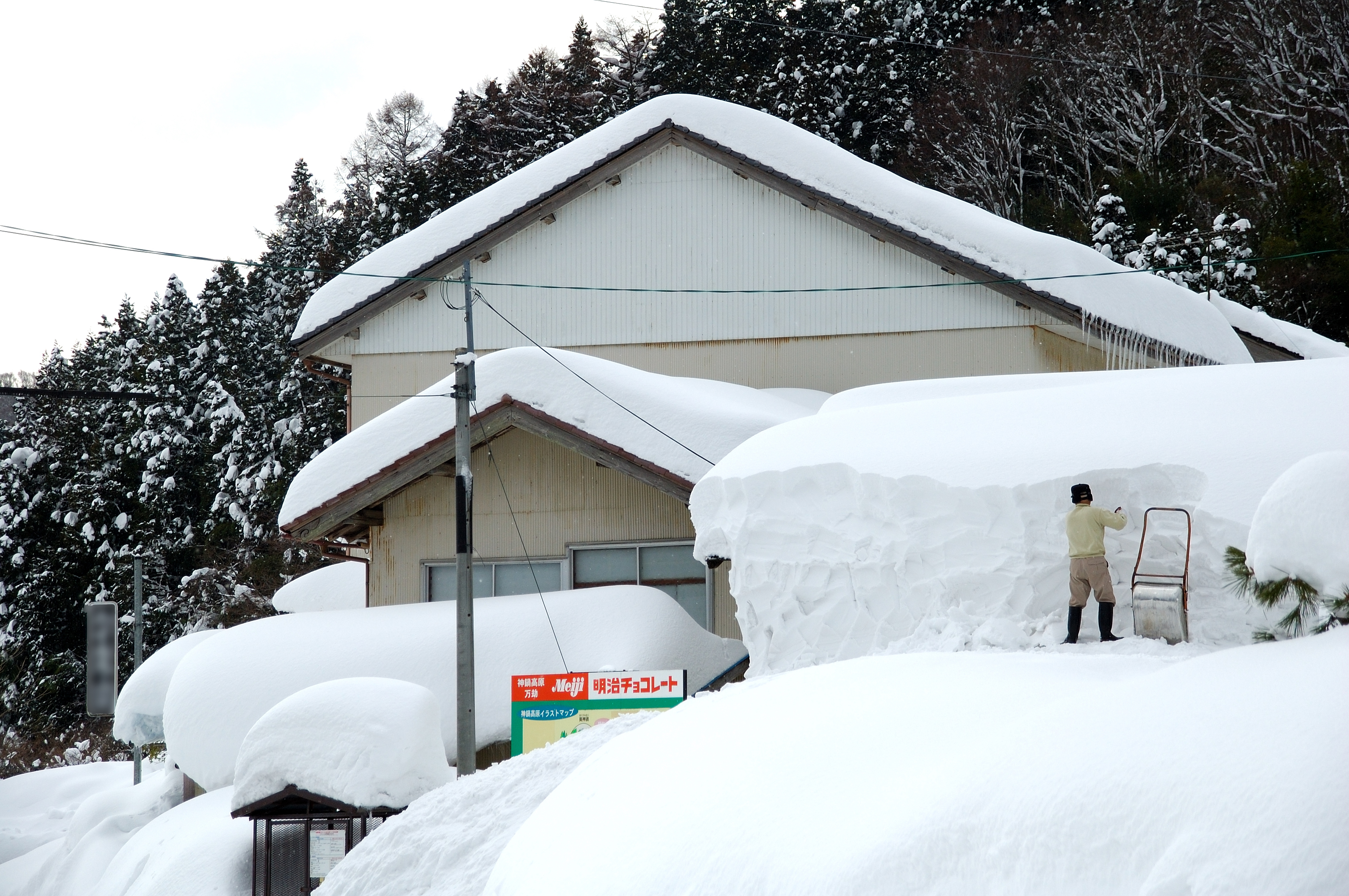 The resident is clearing snow.Heavy snowfall area in Hyogo Japan.